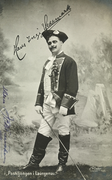 Hans Ingi Hedemark in Le postillon de Lonjumeau by Adolphe Adam and Adolphe de Leuven in 1903. The play was produced by Den Nationale Scene in Bergen. Source: Sceneweb